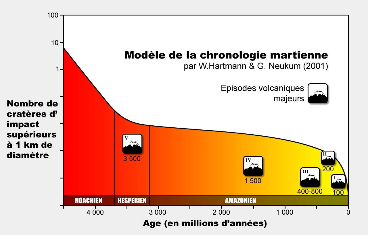 The martian chronology model by W. Hartmann & G. Neukum (2001)